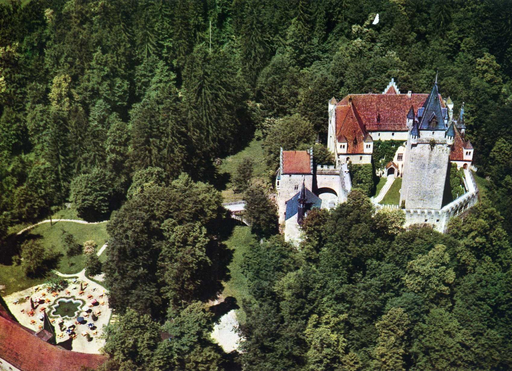 Zeitgeschichtliches Bildungszentrum Schloss Egg